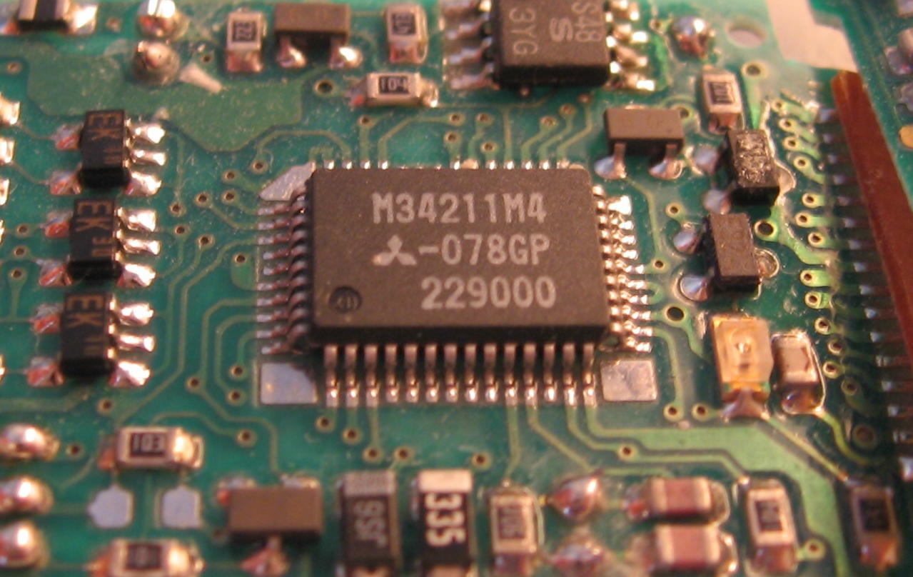 Details of a circuitboard